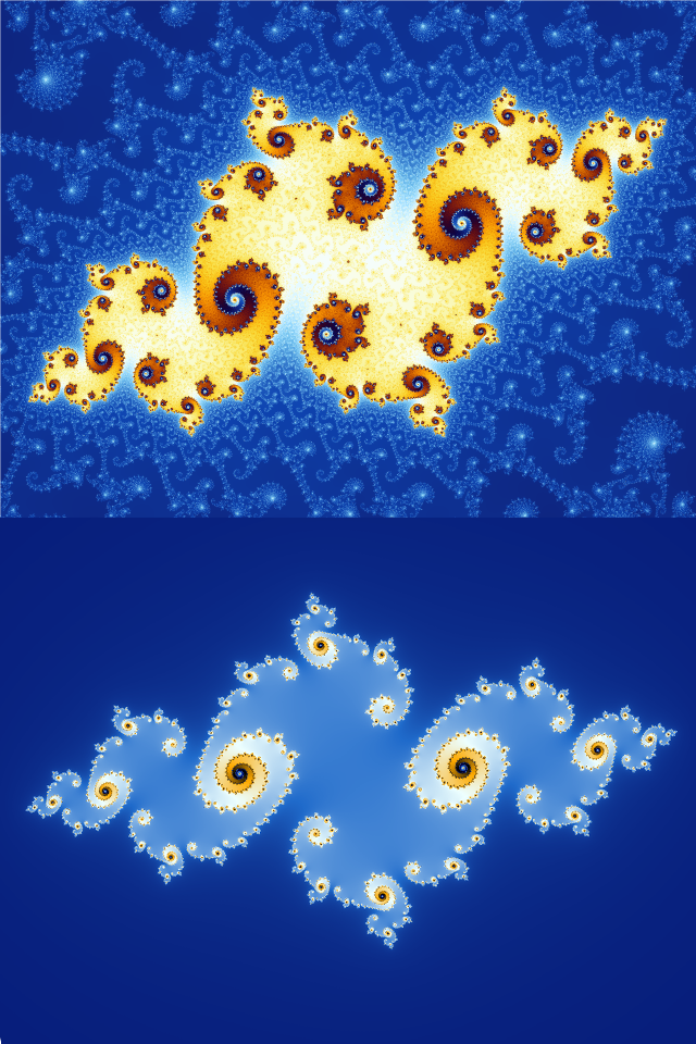 An image illustrating the relationship between the Mandelbrot set and Julia sets. The upper image is the zoom in of the Mandelbrot set centered about (-0.743643887037151 + 0.131825904205330i) with a horizontal diameter of 0.000000000051299. The lower image is the corresponding Julia set centered about (0 + 0i) and with a horizontal diameter of 0.009860138819832269. 3x supersampling anti-aliasing, warm hue line, normalized iteration count and square root noise reduction have been used in both instances to increase the aesthetic worth and make the images and their structures easily visible.